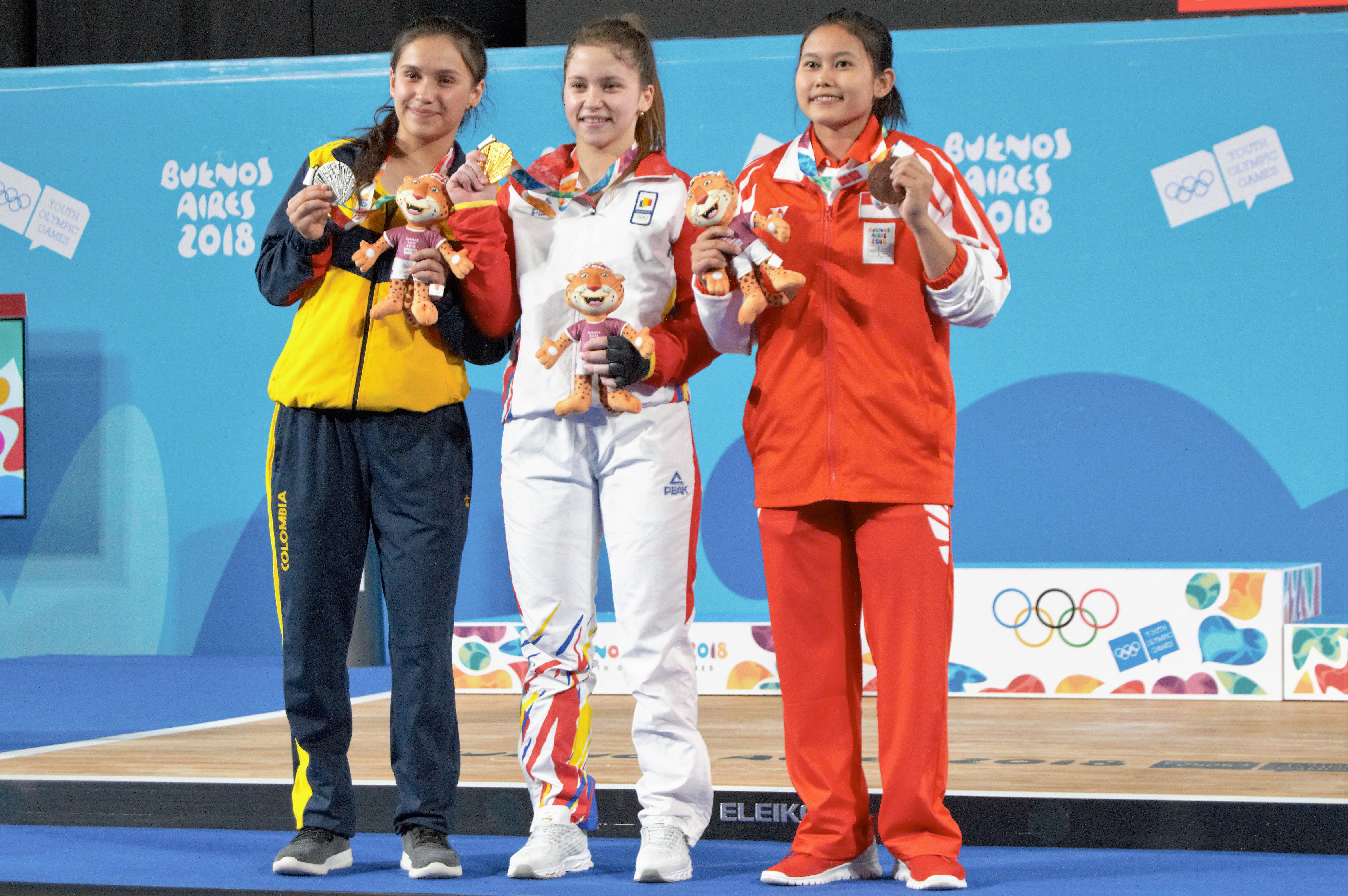 Victory ceremony of the Girls' 53kg Group A Weightlifting competition of the 2018 Summer Youth Olympics.